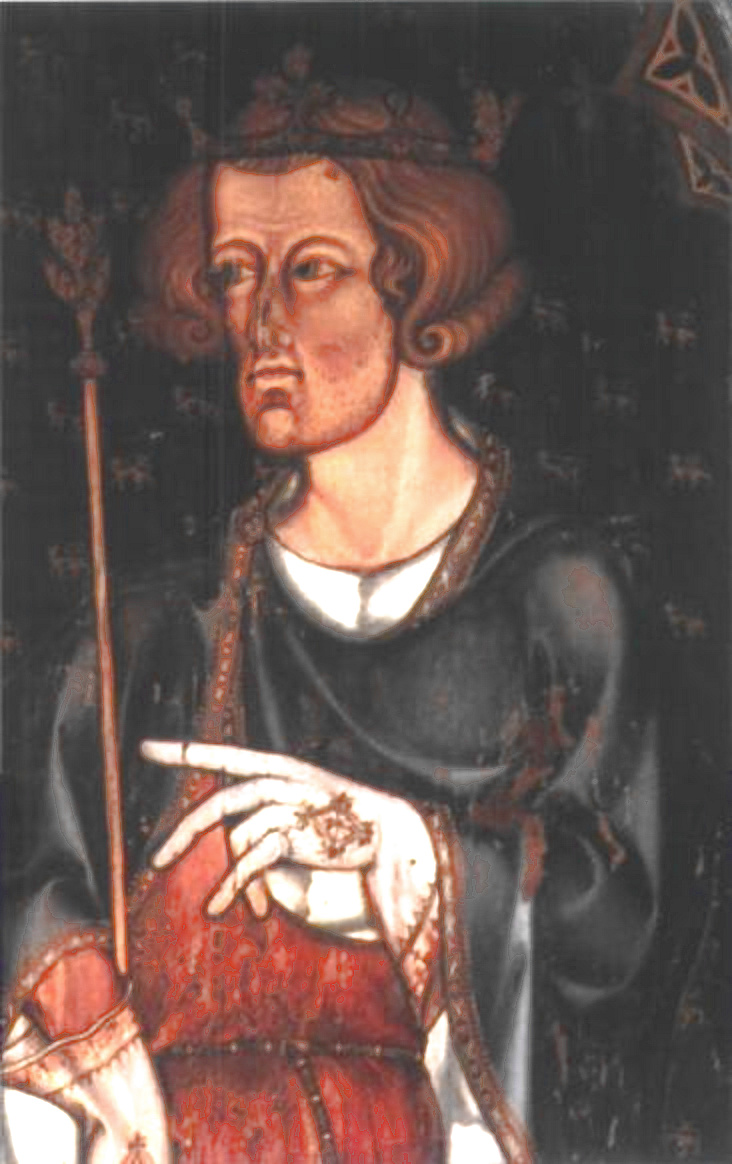 Sedilia at Westminster Abbey, erected during the reign of Edward I (1272- 1307); see also the cover image and commentary from "Edward I", by Professor Michael Prestwich.